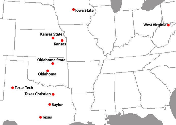 Updated with grey background & names written in black